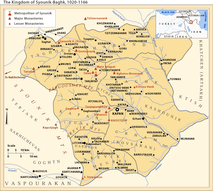 The Kingdom of Syounik-Baghk, 1020-1166